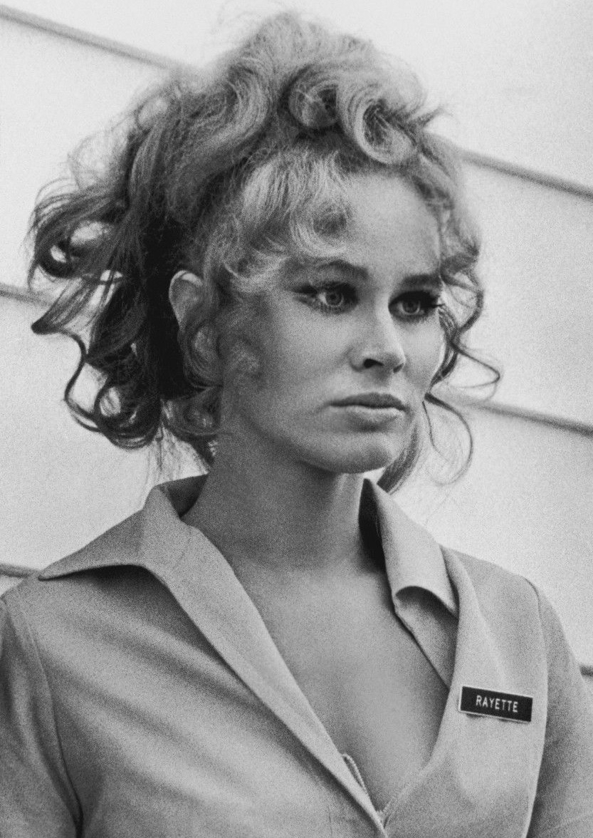 Publicity headshot of actress Karen Black in the film Five Easy Pieces (1970).